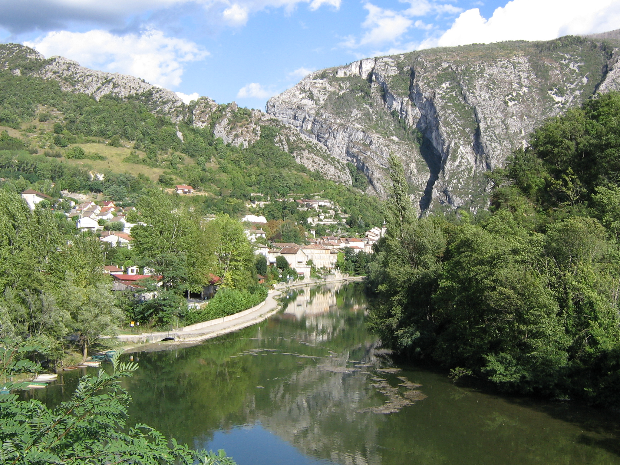 Pont en Royans